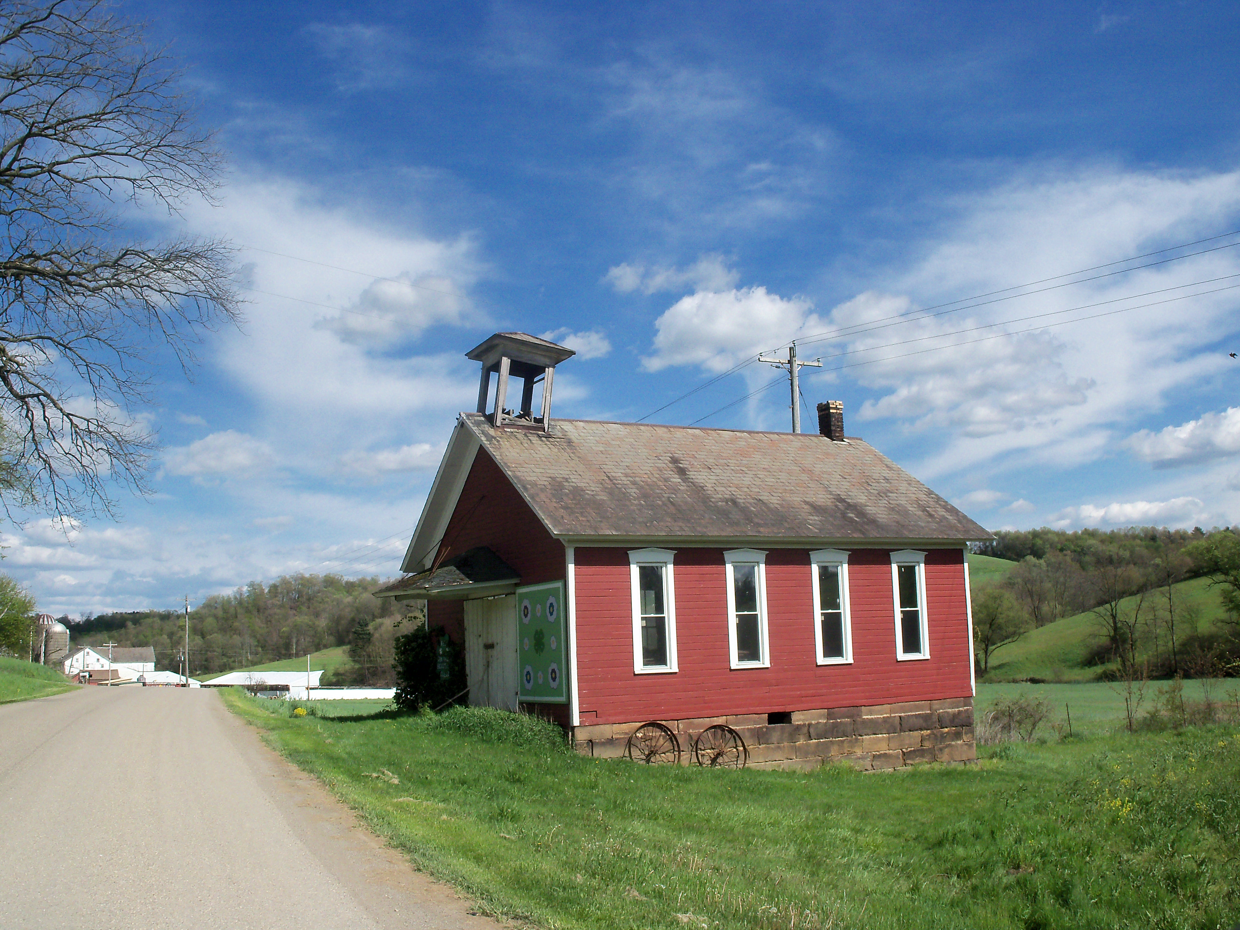 Angel Valley School, on Angel Valley Road near Stone Creek, Ohio